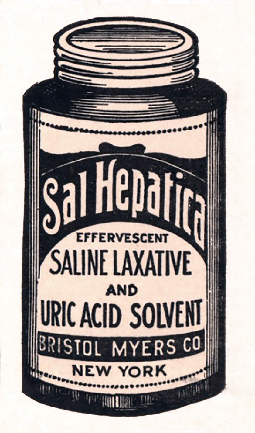 Identifier: americannews43loui Title: American practitioner and news Year: 1909 (1900s) Authors: Subjects: Medicine Publisher: Louisville, Ky. : American Practitioner and News Pub. Co Text Appearing Before Image: d and tonic to languid nerves, and. containing no morphine or itsderivatives, produces rest without the least reaction. DANIELSPASSIFLORA is the ideal anti spasmodic, and is indicated in all diseases ot the nervous system including Insomnia, Neuralgia, Hysteria,Dentition, in Typhoid Fever, and in those affectioi iliar t women. It is natures remedy to restore neural equilibrium. laboratory of J0HN B DANIEL, Atlanta, Ga. W-ite for Literature. Samples Supplied. Physician Paying- Exp. Charges. CONTENTS—Continued. MISCELLANEOUS Books and Pamphlets Received, 284Antisepsis of the Intestinal Canal ••• 285 Accuracy in Therapeutics, .... -?.s Treatment of Acne, The Blood After Splenectonis ,Diagnostic Accuracy, SAL HEPATICA ¥■ r 1 reposing :mEFFERVESCING ARTIFICIAL MINERAL WATER Superior to the Natural, Containlne the Tonic, Alterative and Bitter Waters of K the addition of Lithia and Sodium Phosphate. BRISTOL - MYERS CO. ;•- * 77 079 Ore* •■• A v.BROOKLYN - NEW YORK. Text Appearing After Image: nun] When Writing to Advertisers Please Mention this Journal. ADVERTISEMENTS.—(Mention this Journal.)